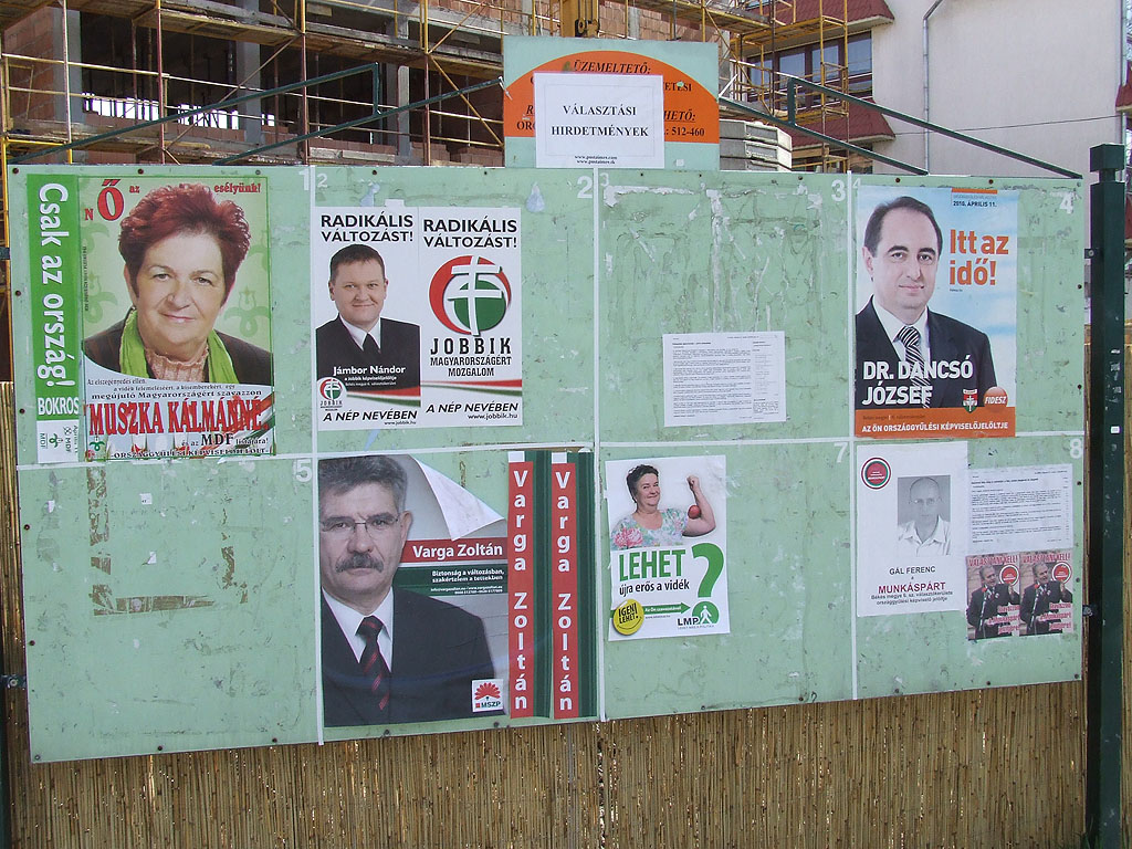 Posters of the 2010 Hungarian parliamental elections campaign in number 6 parliamentary single-member constituency (Orosháza) in Békés county